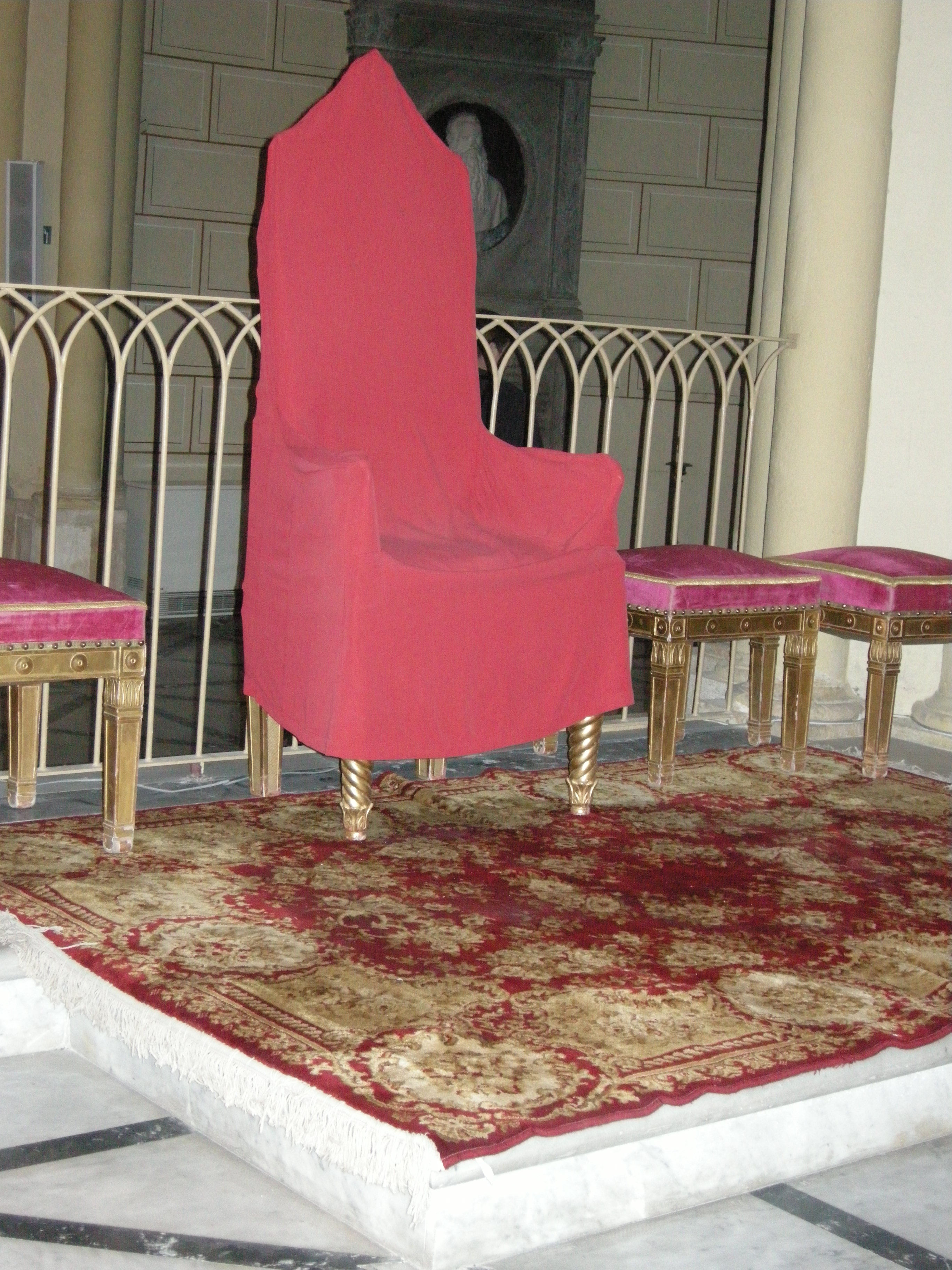 Visit in the Concathedral of the Latin Patriarch of Jerusalem, cathedra of the patriarch